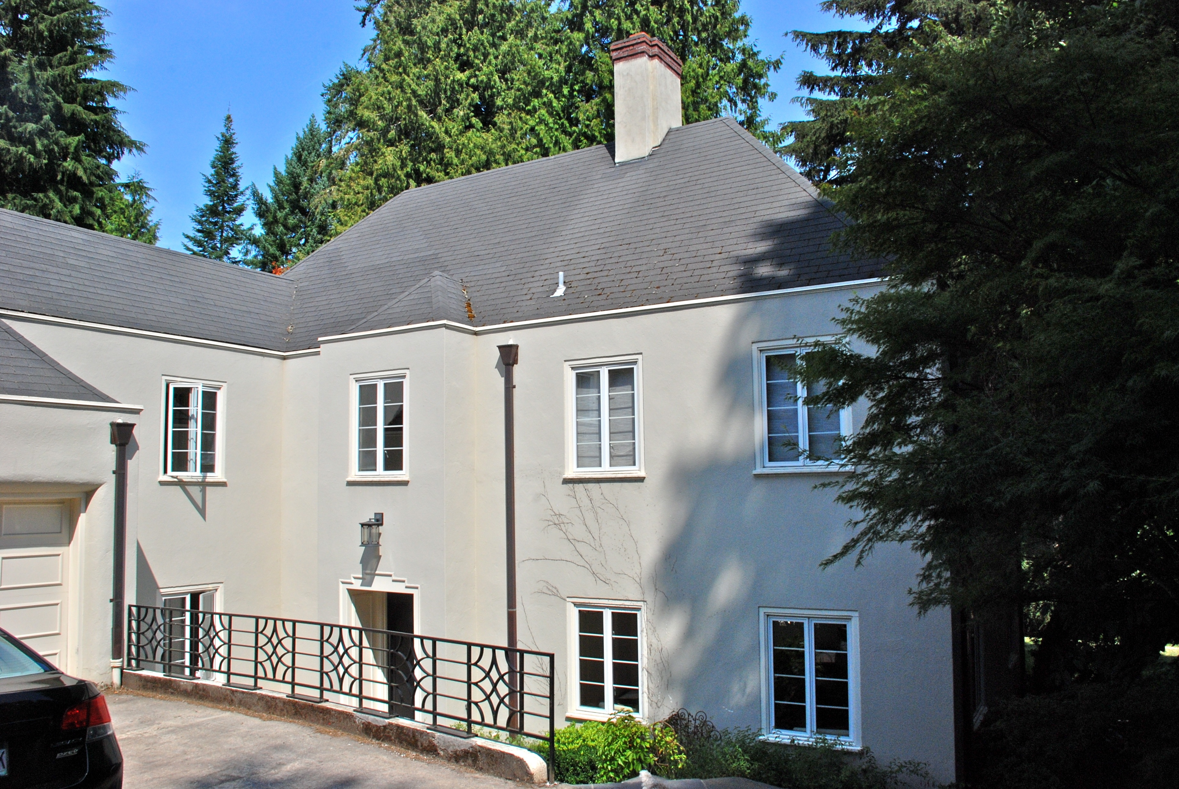 The John M. and Elizabeth Bates House No. 1 (built 1935), at 1837 SW Edgewood Road, Portland, Oregon, is listed on the U.S. National Register of Historic Places.